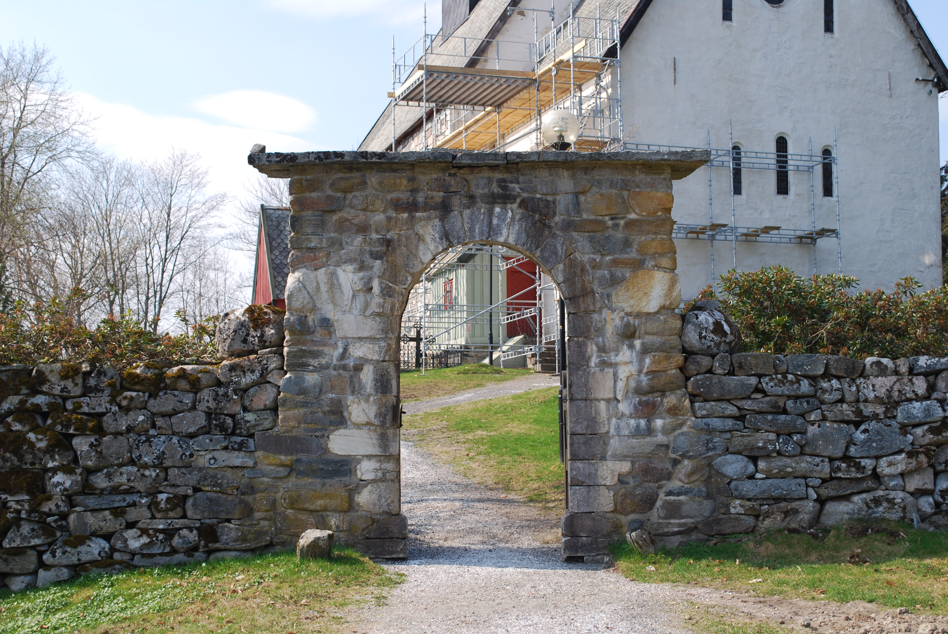 Tingvoll kirke in Tingvoll, Møre og Romsdal, Norway.